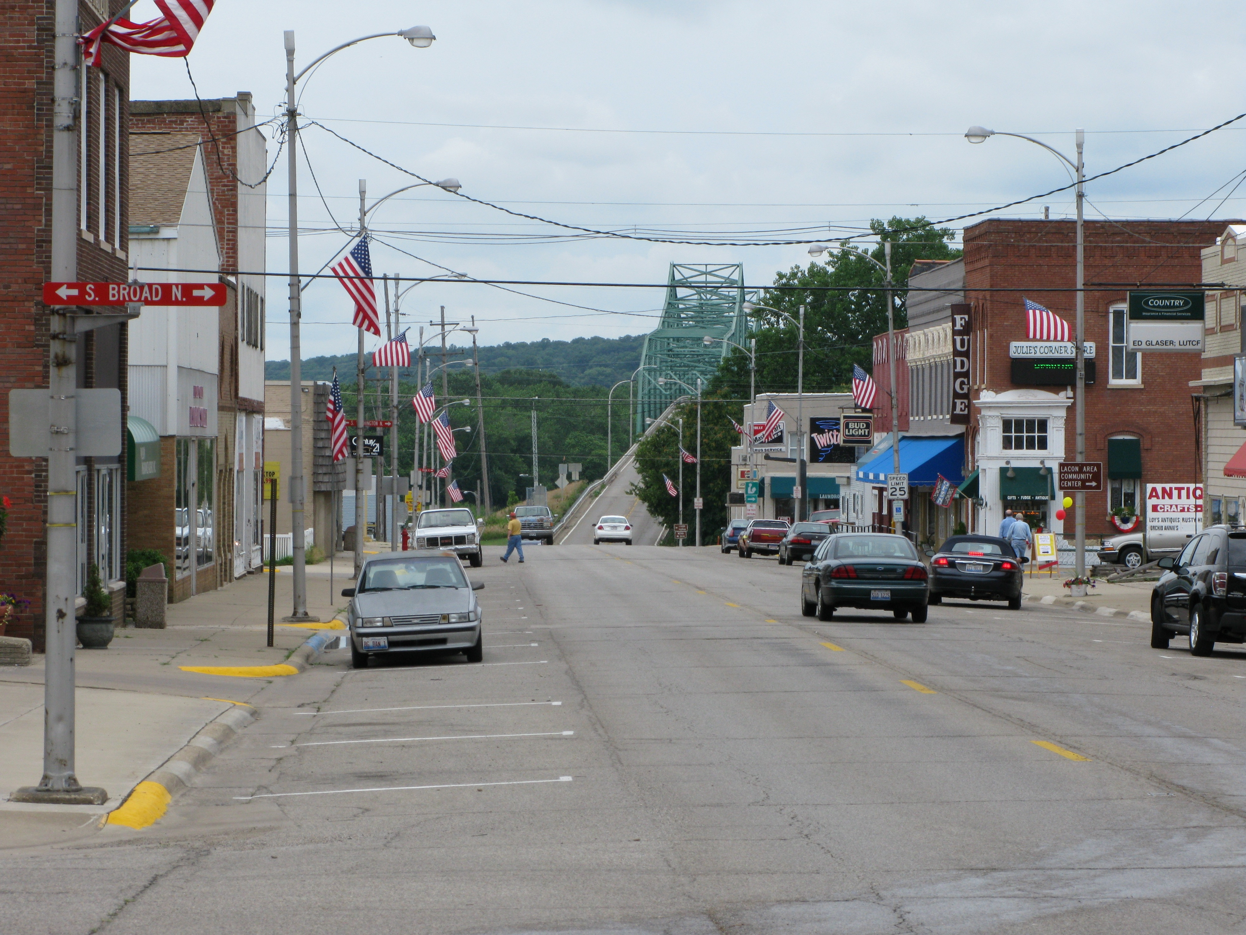 5th Street, Lacon, Illinois. 5th Street (Illinois Route 17) looking west from Broad Street to the Lacon Bridge.